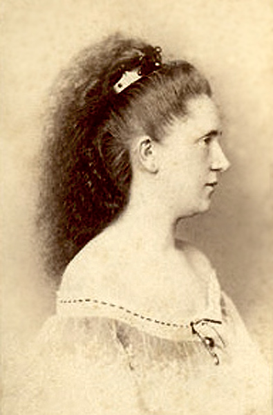 The portrait of German pianist and composer Ingeborg Bronsart von Schellendorf (1840—1913)